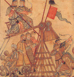 Mongols trebuchet - porok